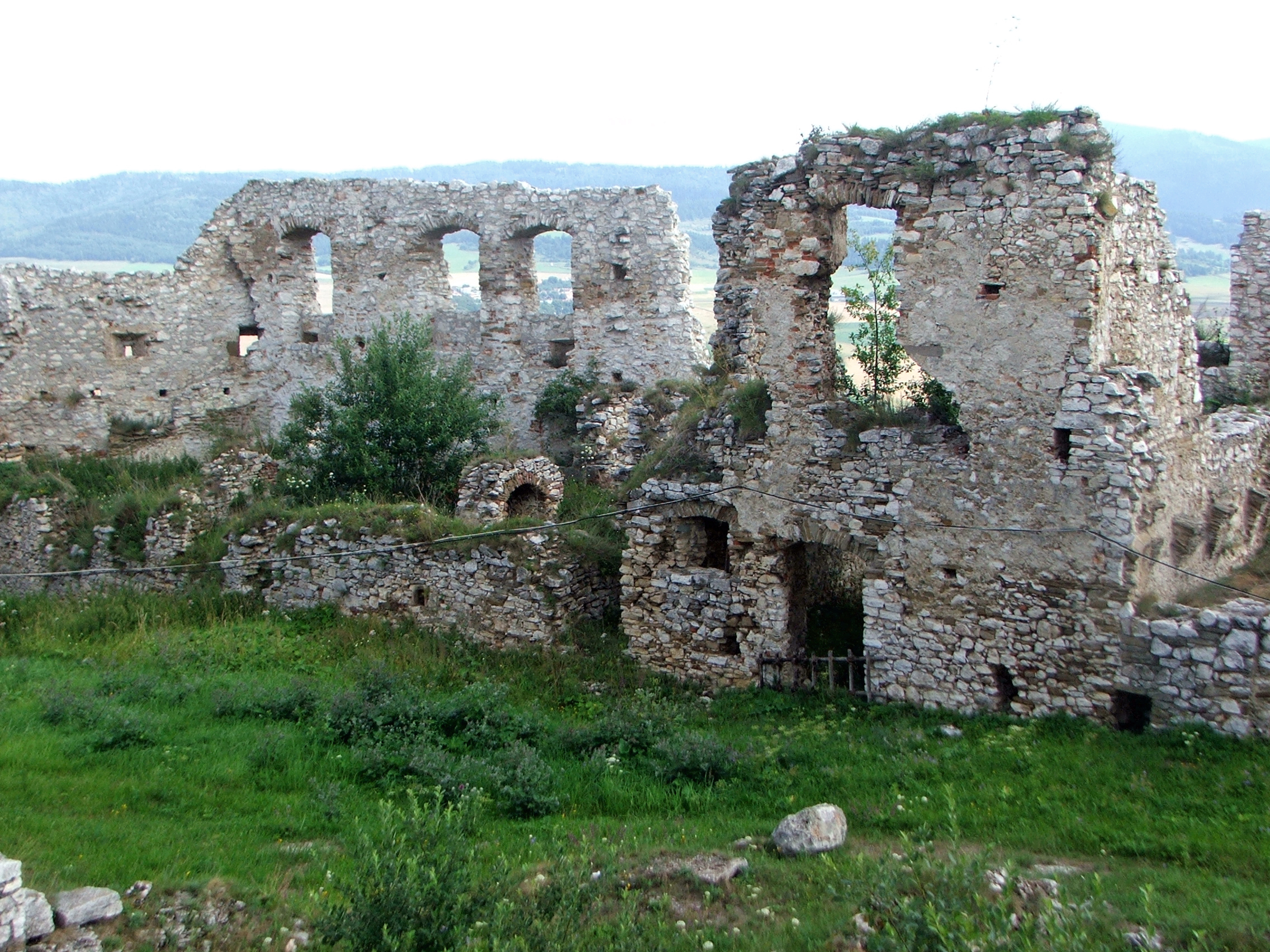 Spis Castle restoration